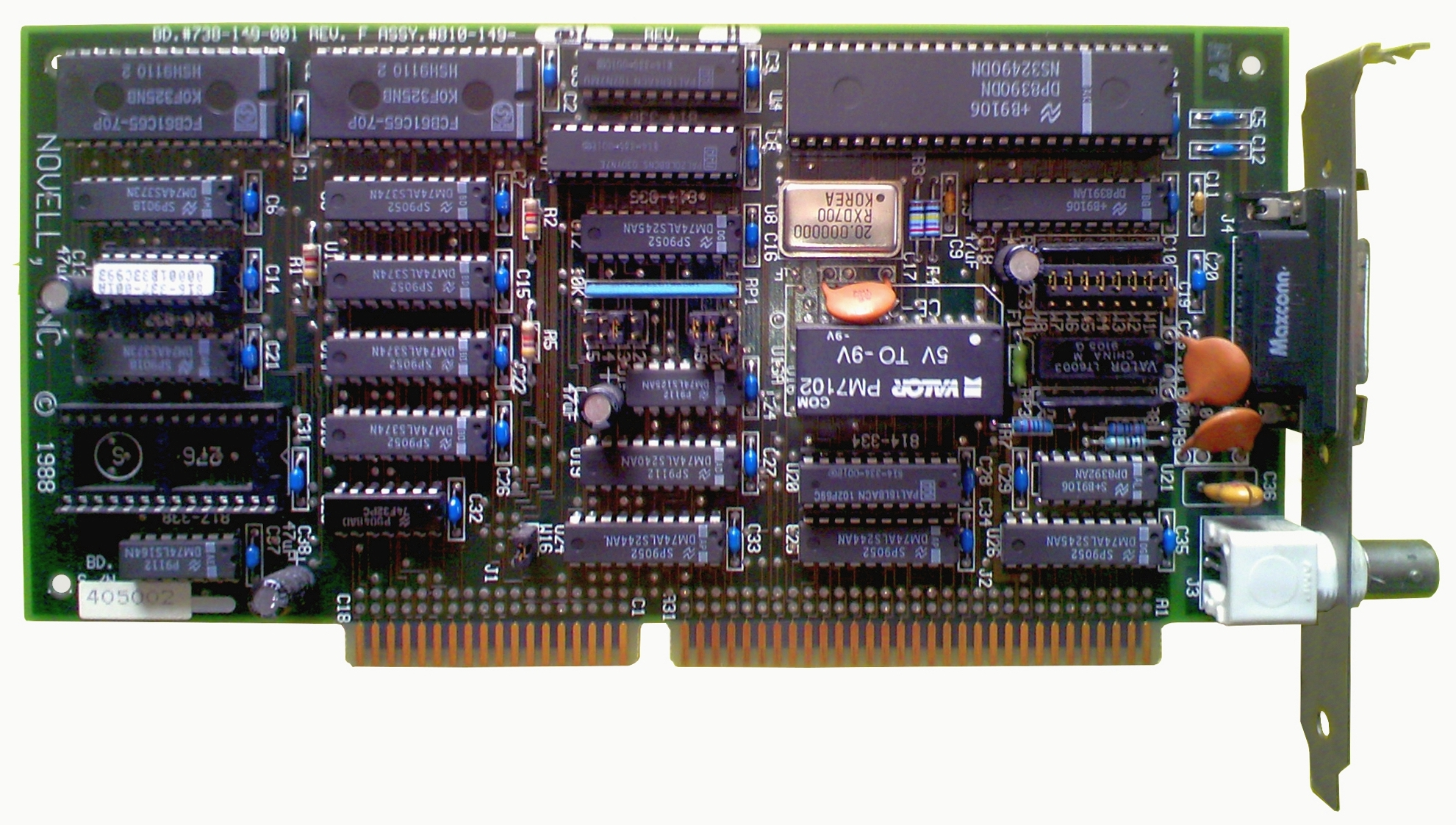 This is a 1988 Novell Ethernet 10Mbps Network Interface card. It has both 10Base-5 (AUI) and 10Base-2 (BNC) connectors but only one or the other can be used. It can be slotted in any ISA compatible bus.